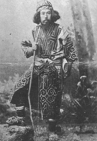 Benzo Yoda wearing Ainu Dress